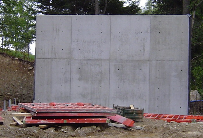 Sample to assess the appearance of architectural concrete